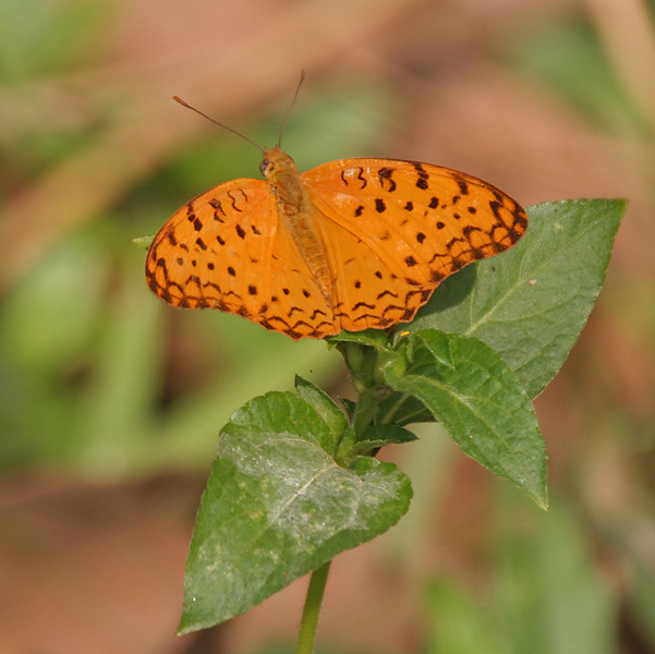 Common Leopard Phalanta phalantha in Kolkata, West Bengal, India.